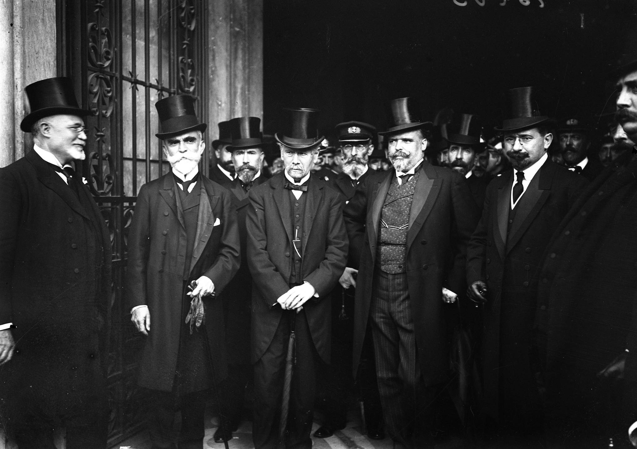 Bernardino Machado, Teófilo Braga, António José de Almeida e Afonso Costa, after a Parliament session honoring the dead of the Portuguese Republican Revolution. 1911.